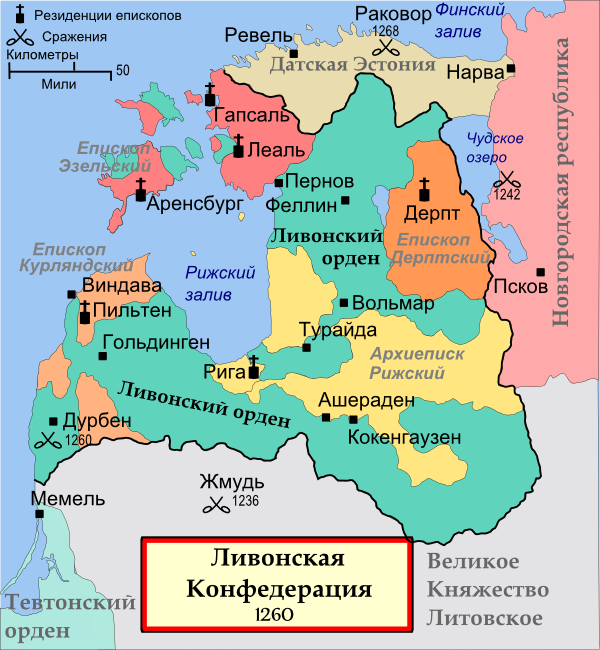 Confederation of Livonia 1260 in Russian